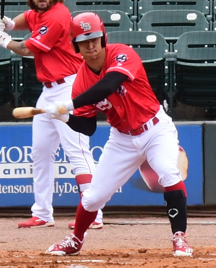 A Soldier in his Class A military uniform (bottom left) watches the Louisville Bats game with his family. Rob Refsnyder is batting and Nick Longhi is on deck for the Louisville Bats. Chance Sisco is catching for the Norfolk Tides.